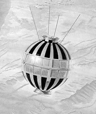 San Marco 3 satellite's artist conception